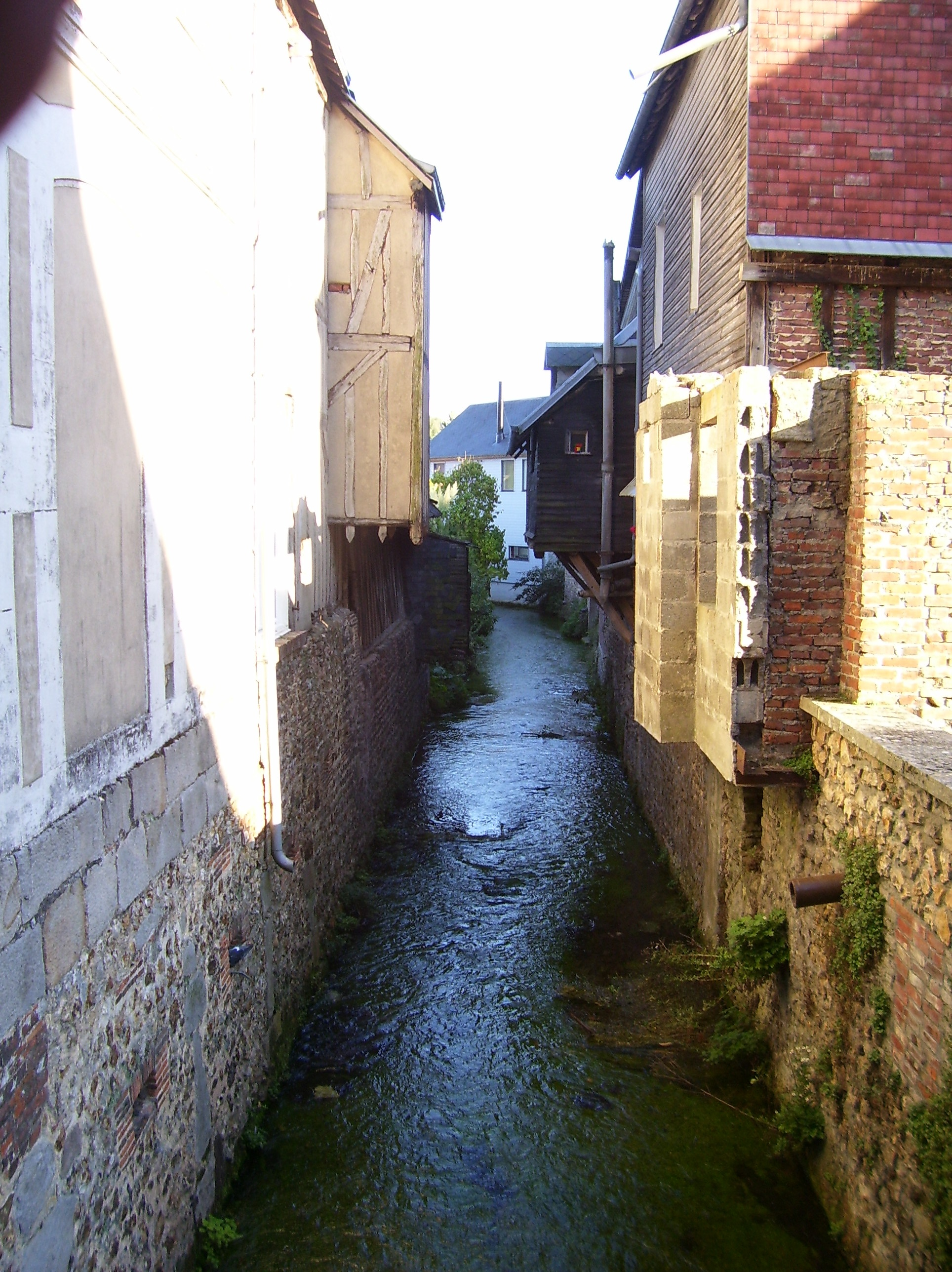 The Cosnier in Bernay (Eure, France). It is an affluent of the Charentonne.